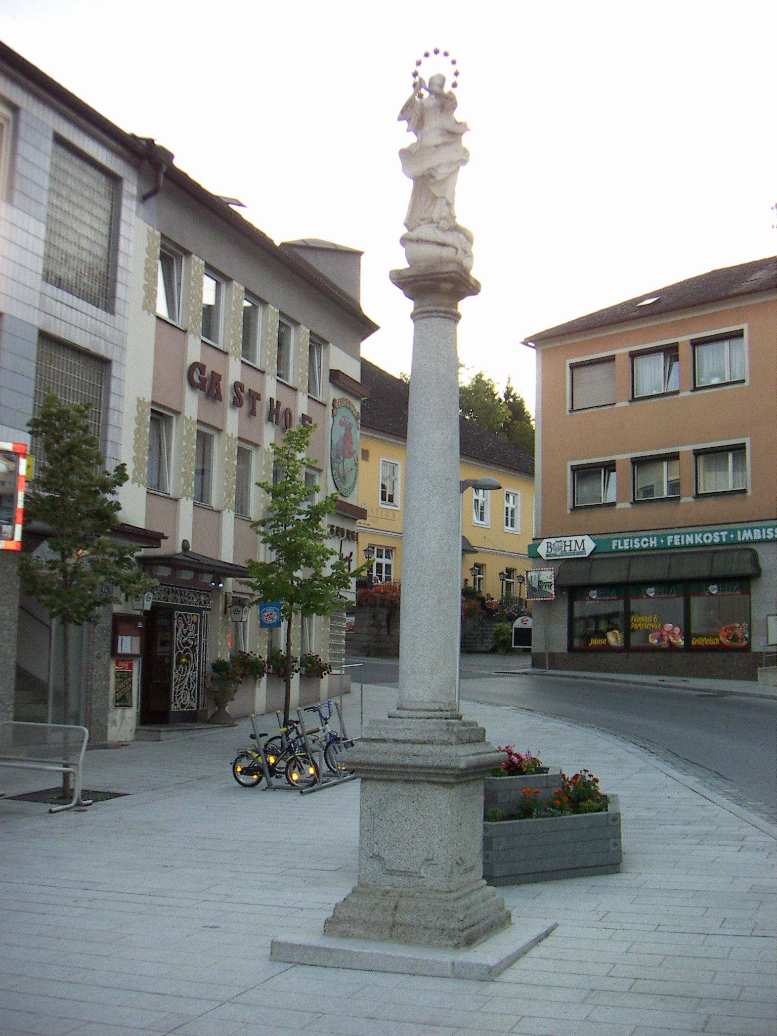 The marian column of St. Georgen an der Gusen (c. 1730)